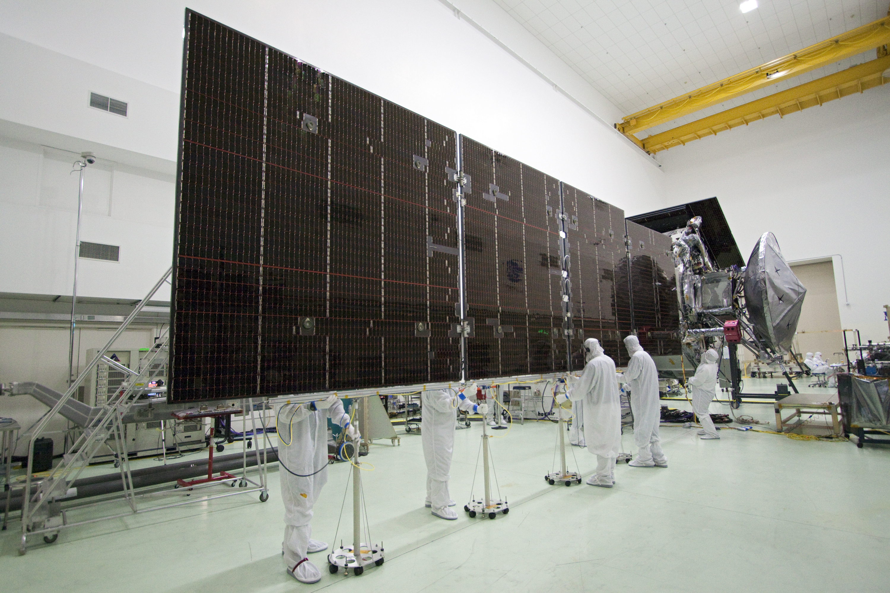 CAPE CANAVERAL, Fla. -- In a clean-room environment at Astrotech's payload processing facility in Titusville, Fla. technicians prepare solar array panels on NASA's Juno spacecraft for illumination testing. Juno is scheduled to launch aboard a United Launch Alliance Atlas V rocket from Cape Canaveral, Fla. Aug. 5.The solar-powered spacecraft will orbit Jupiter's poles 33 times to find out more about the gas giant's origins, structure, atmosphere and magnetosphere and investigate the existence of a solid planetary core. For more information visit